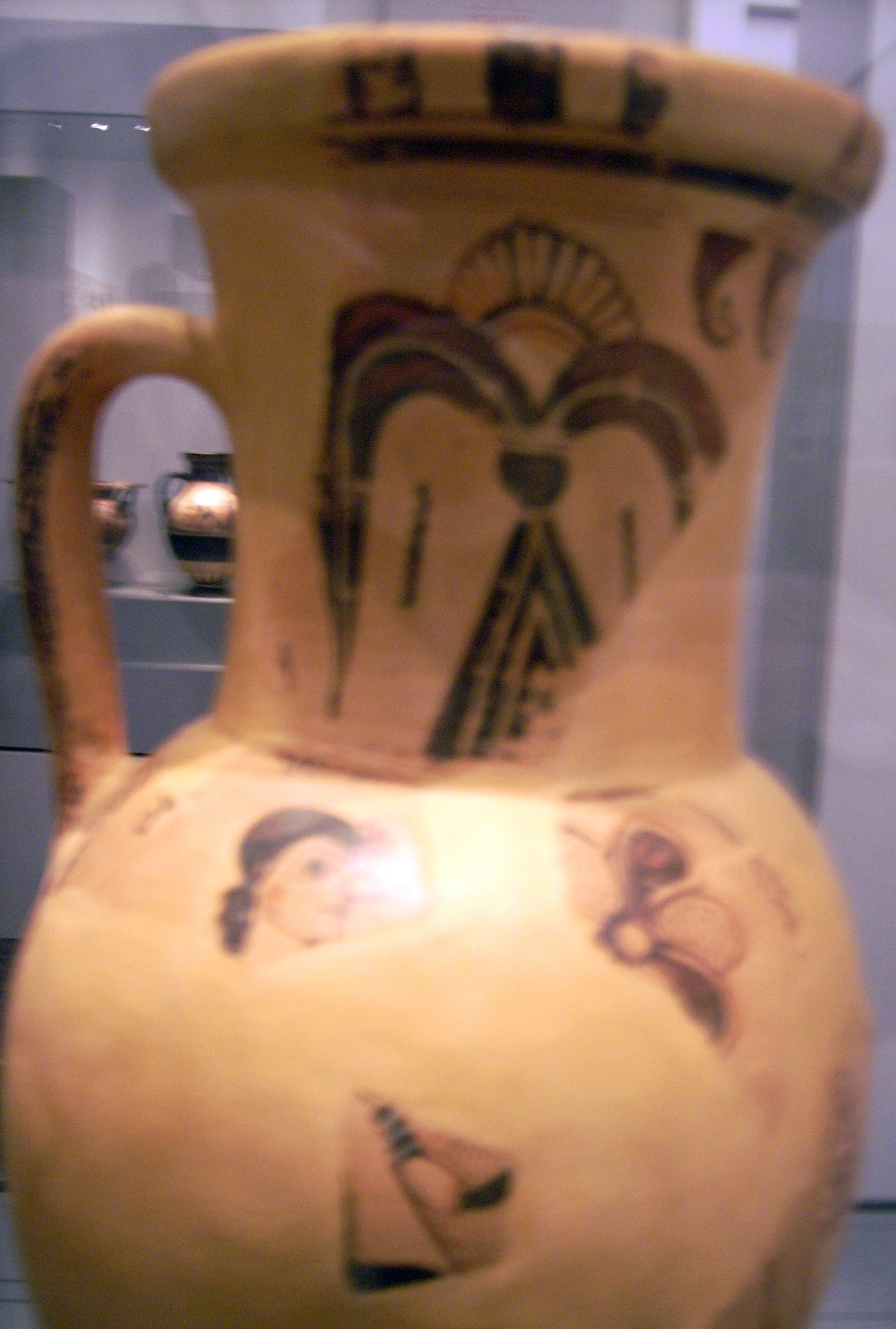 Peleus bringing Achilles to Chiron.